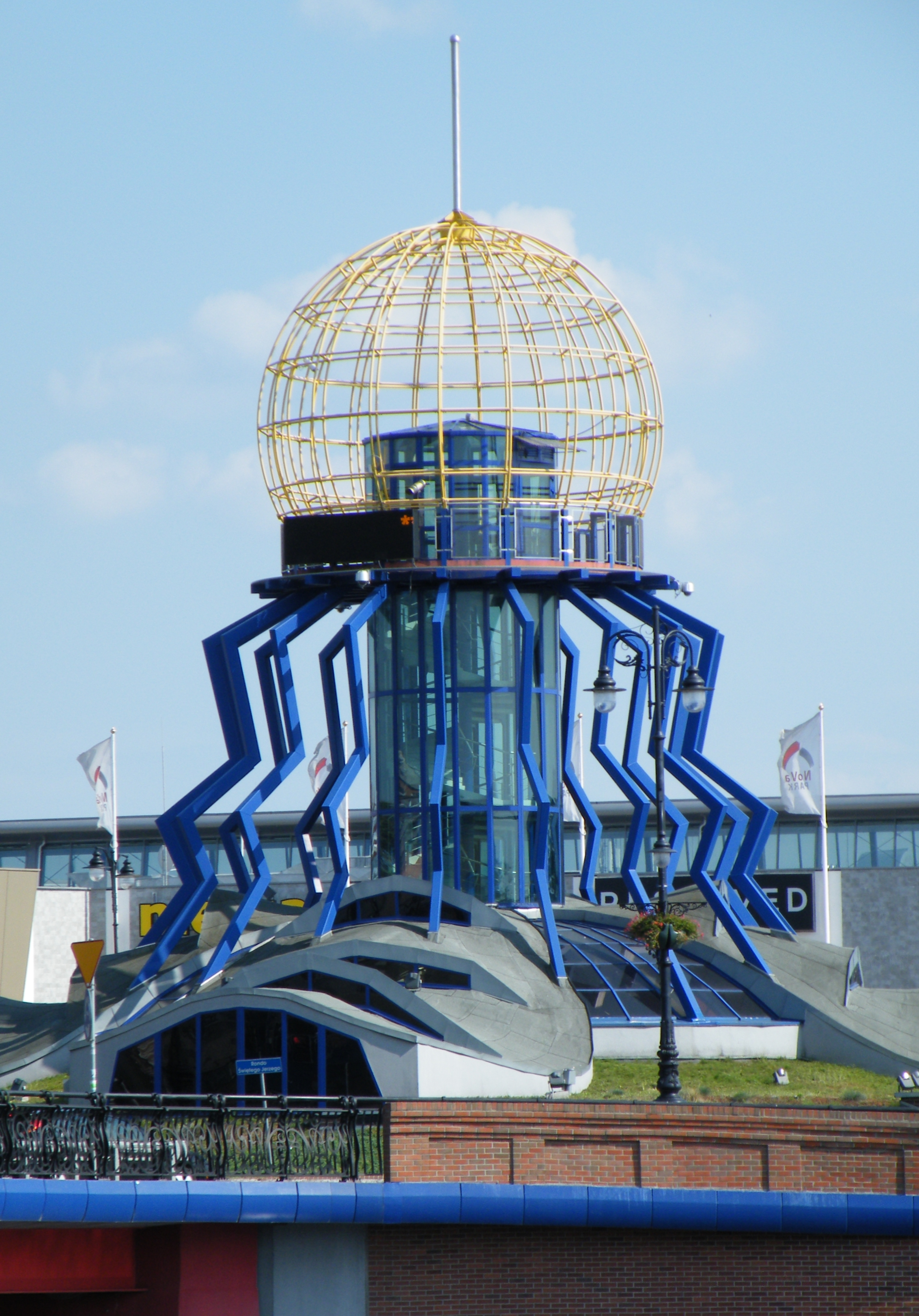 Observation tower in Gorzów Wielkopolski